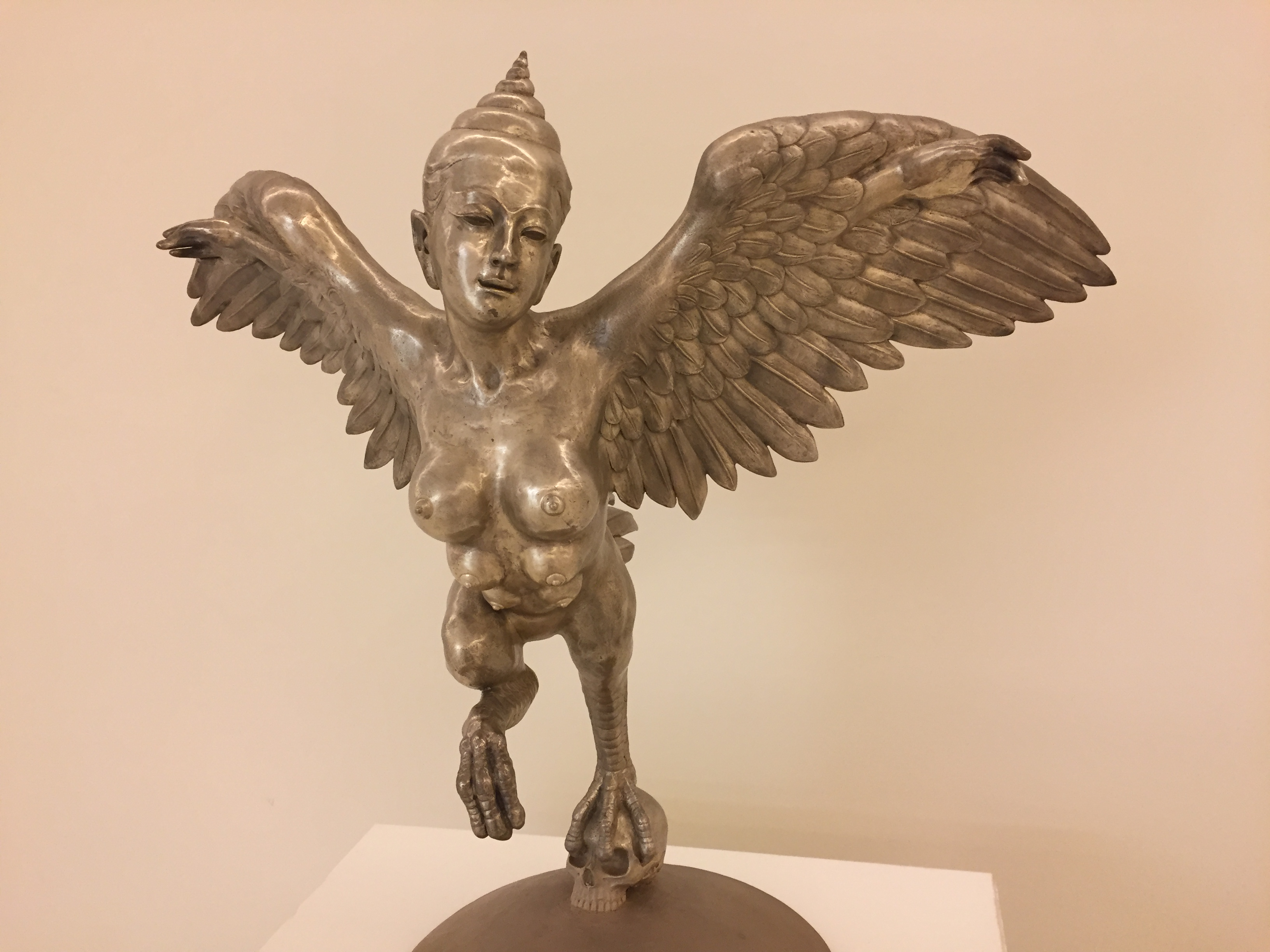 Orahan (2012) by Thongchai Srisukprasert at the Museum of Contemporary Art (MOCA), Bangkok, Thailand.